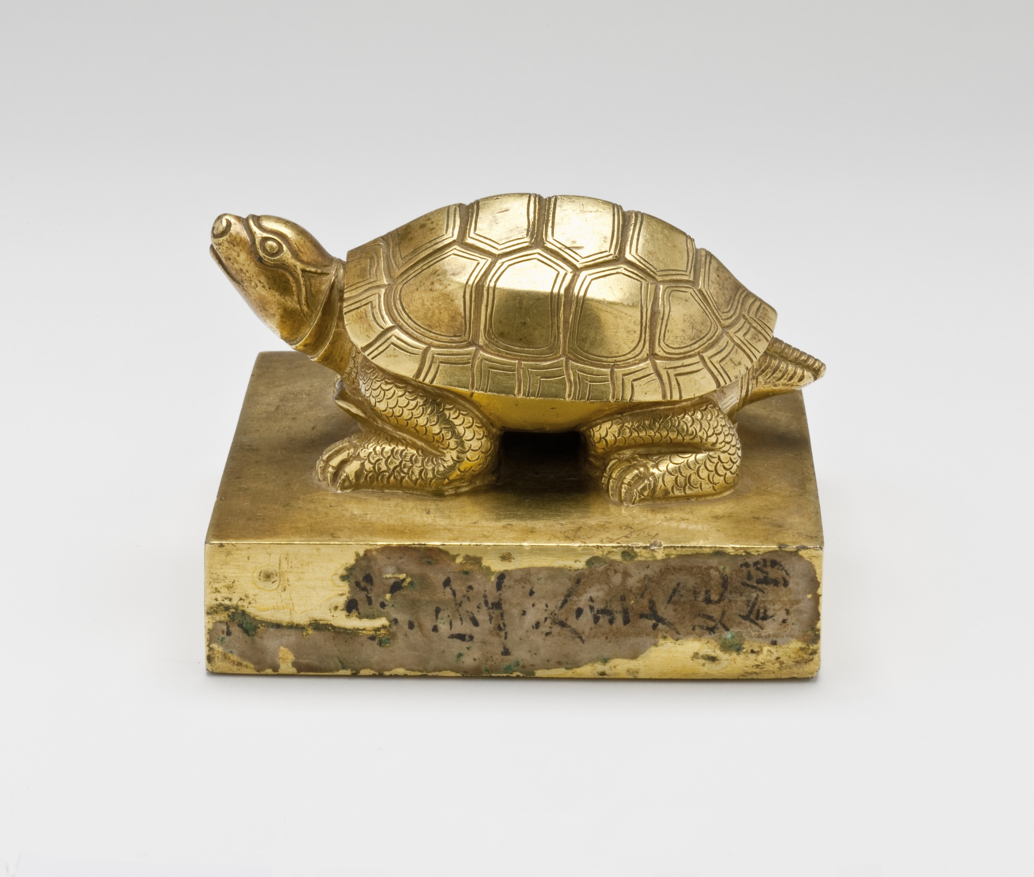 Korea, Joseon dynasty (1392-1910), late 16th-17th century Tools and Equipment; seals Cast bronze with gilding Purchased with Museum Funds (M.2000.15.187) Korean Art